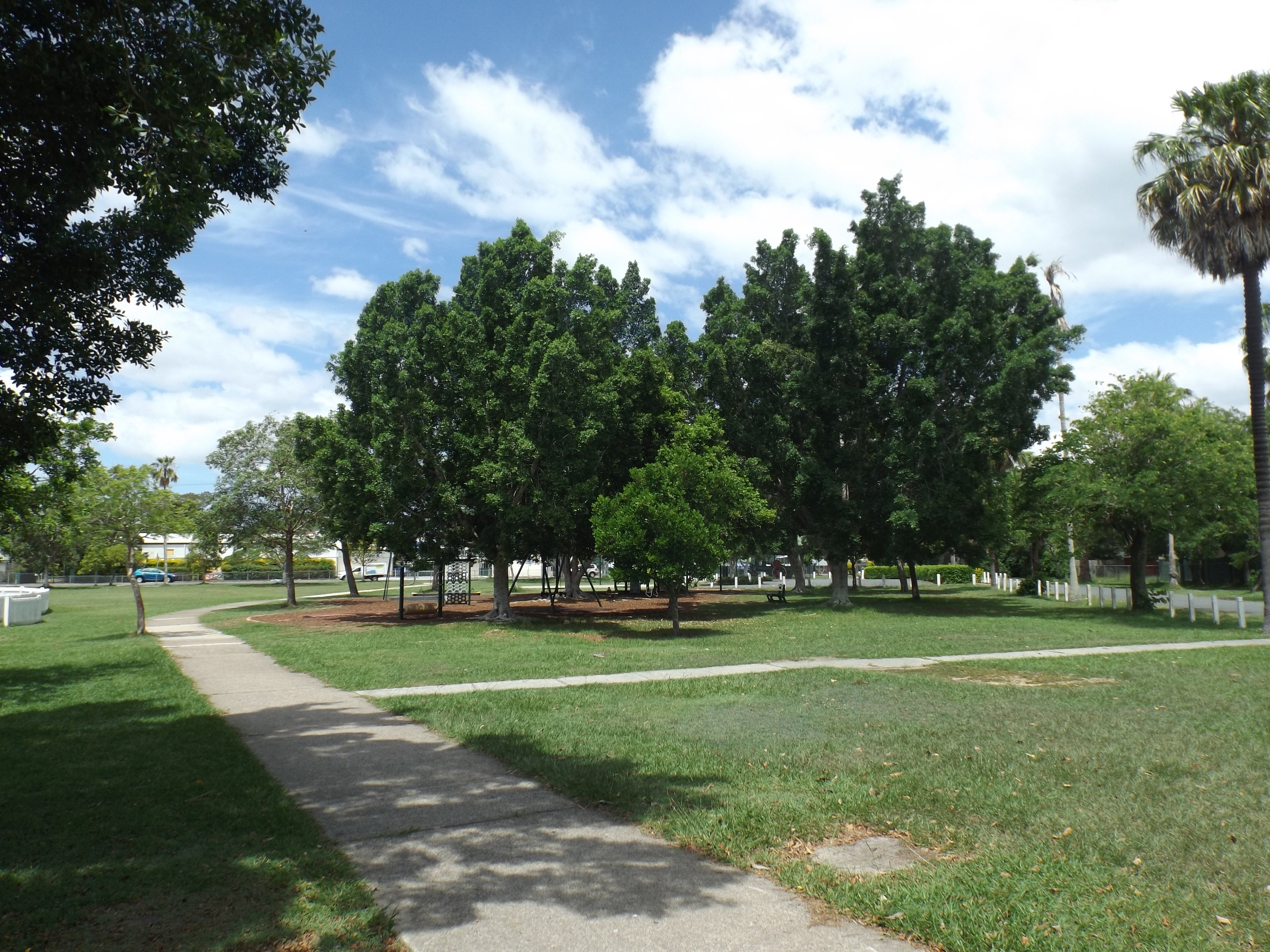 Photo of Graceville Memorial Park playground at Graceville, Brisbane, Queensland, Australia.